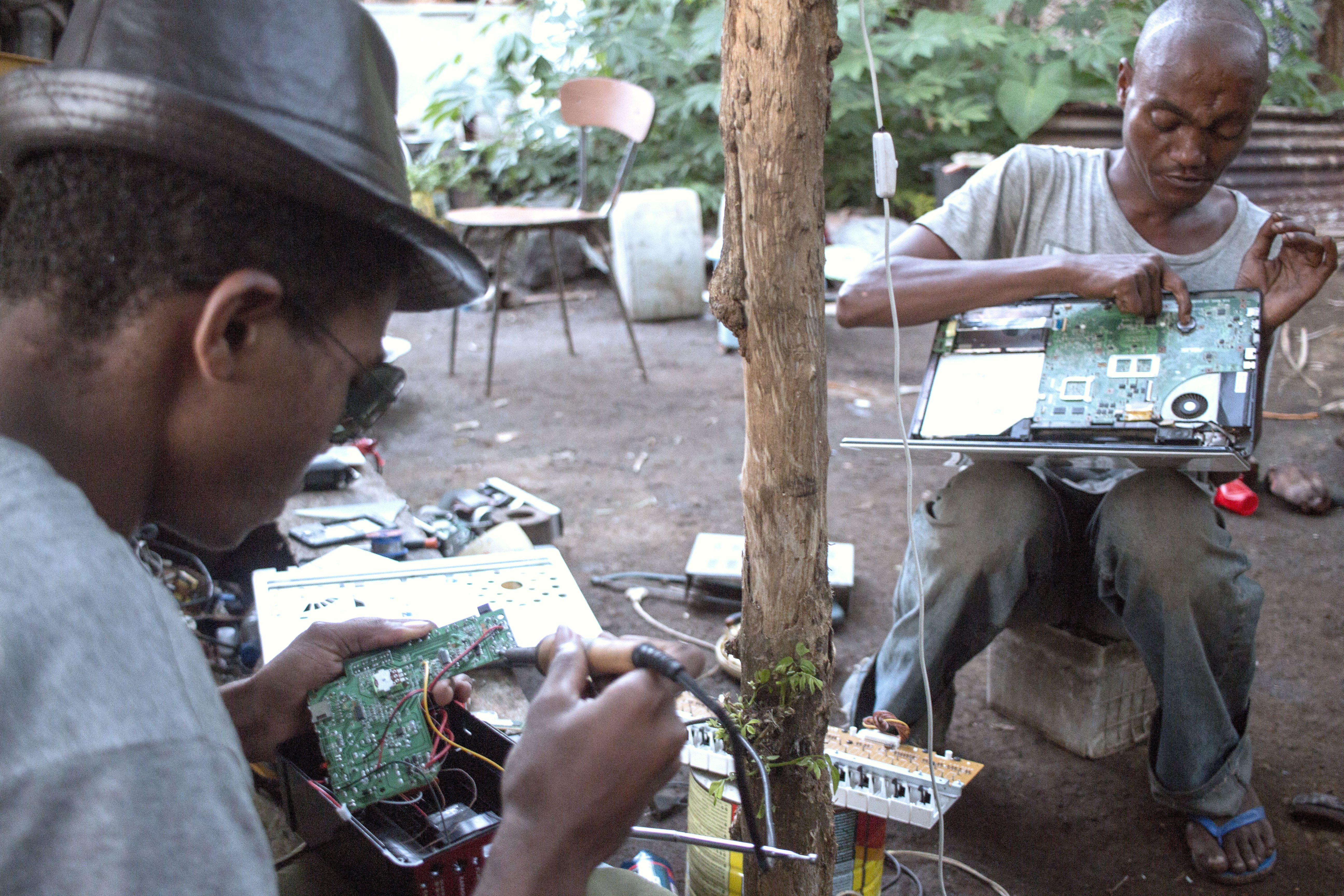 he repairs every electronical device - from Laptops to radios, even motocycles. This is an image of "African people at work" from Comoros